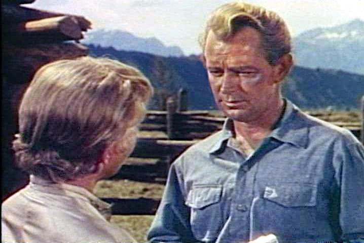 Screenshot of Alan Ladd from the trailer for the film Shane